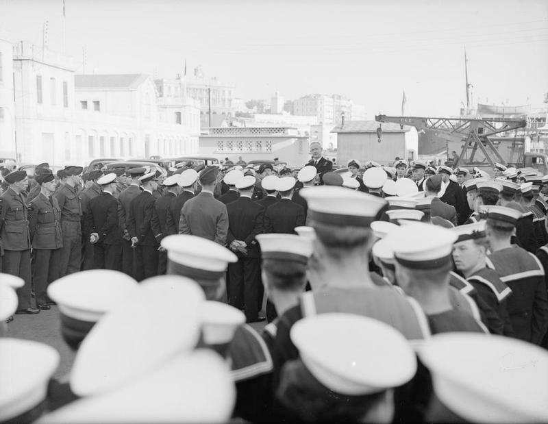 Admiral Cunnningham Inspects Men Who Took Part in North Africa Operations. 24 December 1942, Algiers, Admiral Sir Andrew Cunningham, Naval Commander-in-chief, Expeditionary Force, Inspected Naval and Airforce Personnel Who Played a Leading Part in the Operation. Admiral Sir Andrew Cunningham, GCB, DSO, congratulating the company of Combined Ops NA2 ship BUFFALO.